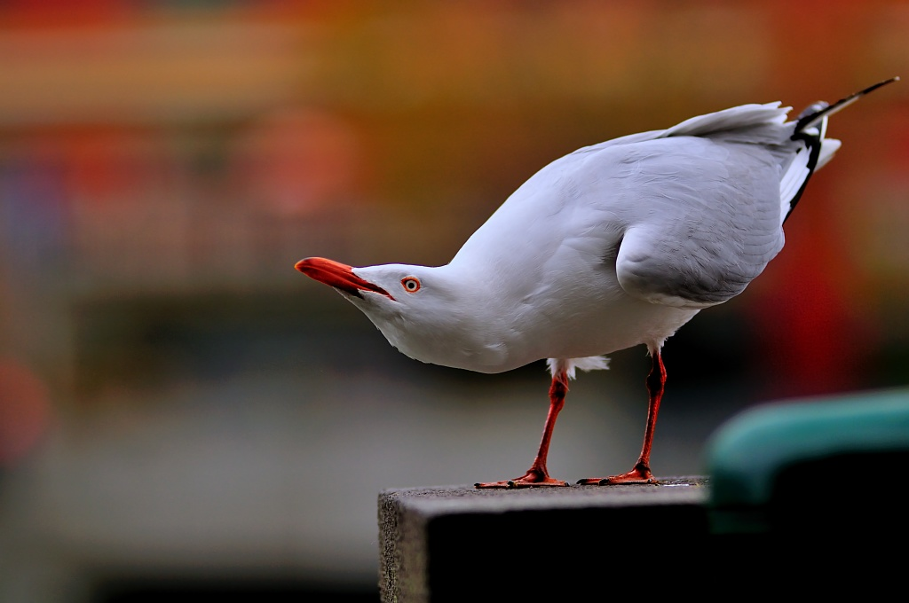 Silver Gull Larus novaehollandiae displaying aggression. Taken with a Nikon D300 in Melbourne.